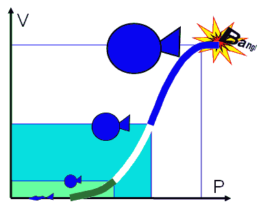 Compliance explained using a ballon as example